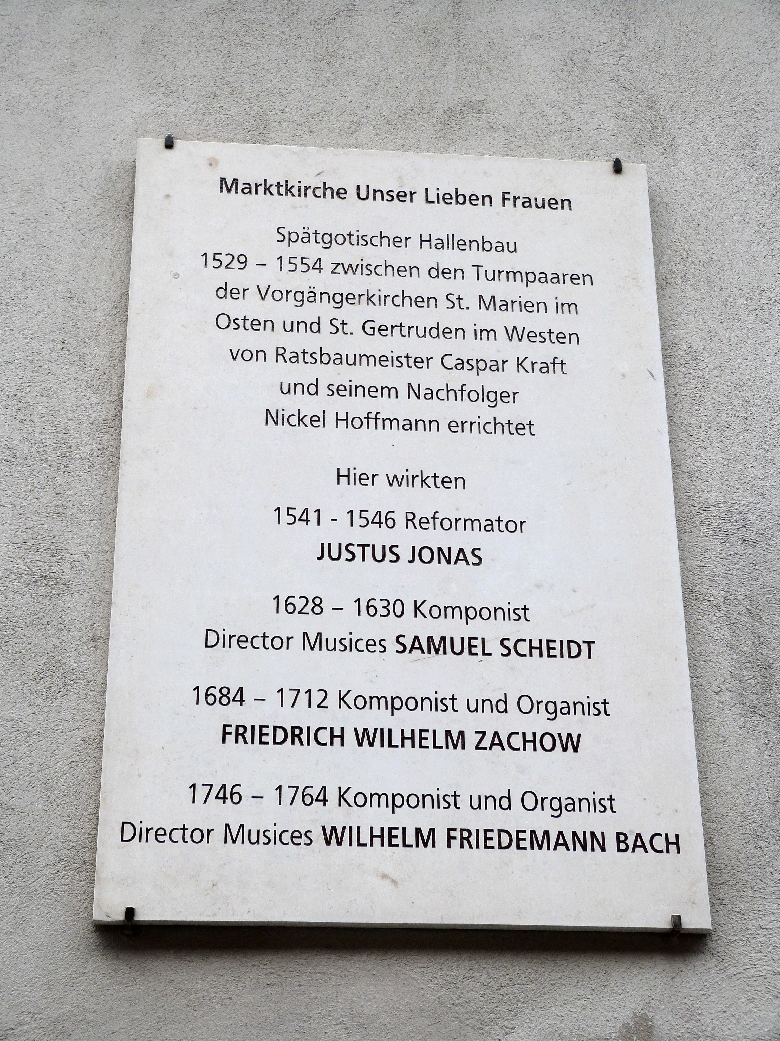 Plaque for Justus Jonas, Samuel Scheidt, Friedrich Wilhelm Zachow and Wilhelm Friedemann Bach, Market church Halle (Saale)